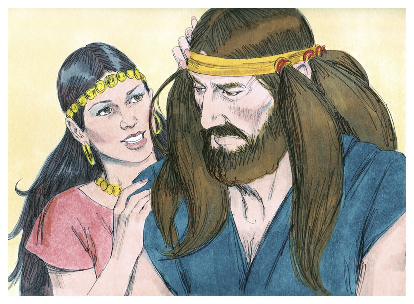 Biblical illustration of Book of Judges Chapter 16